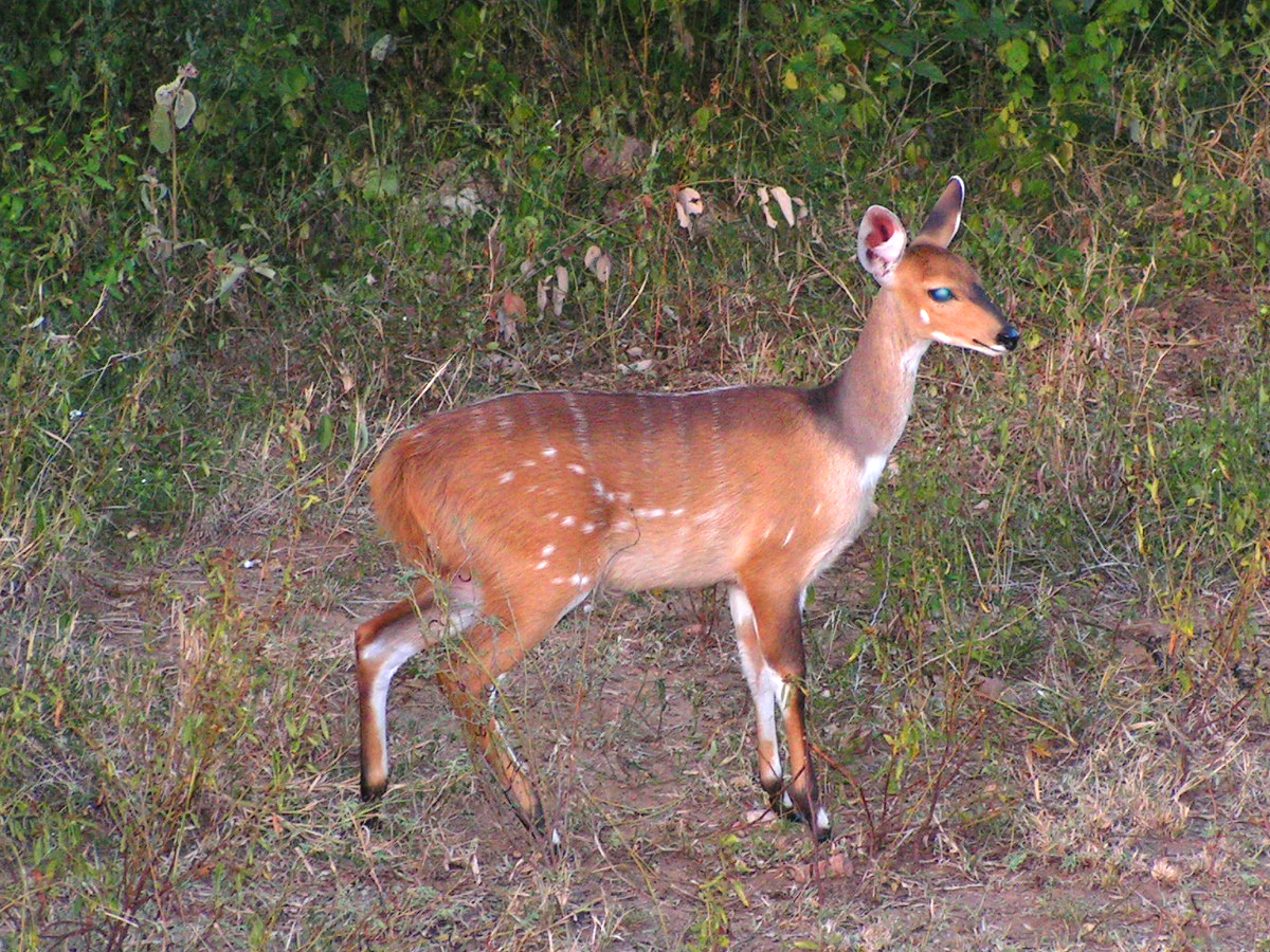 Female bushbuck (Tragelaphus scriptus) taken in Kruger Park, South Africa